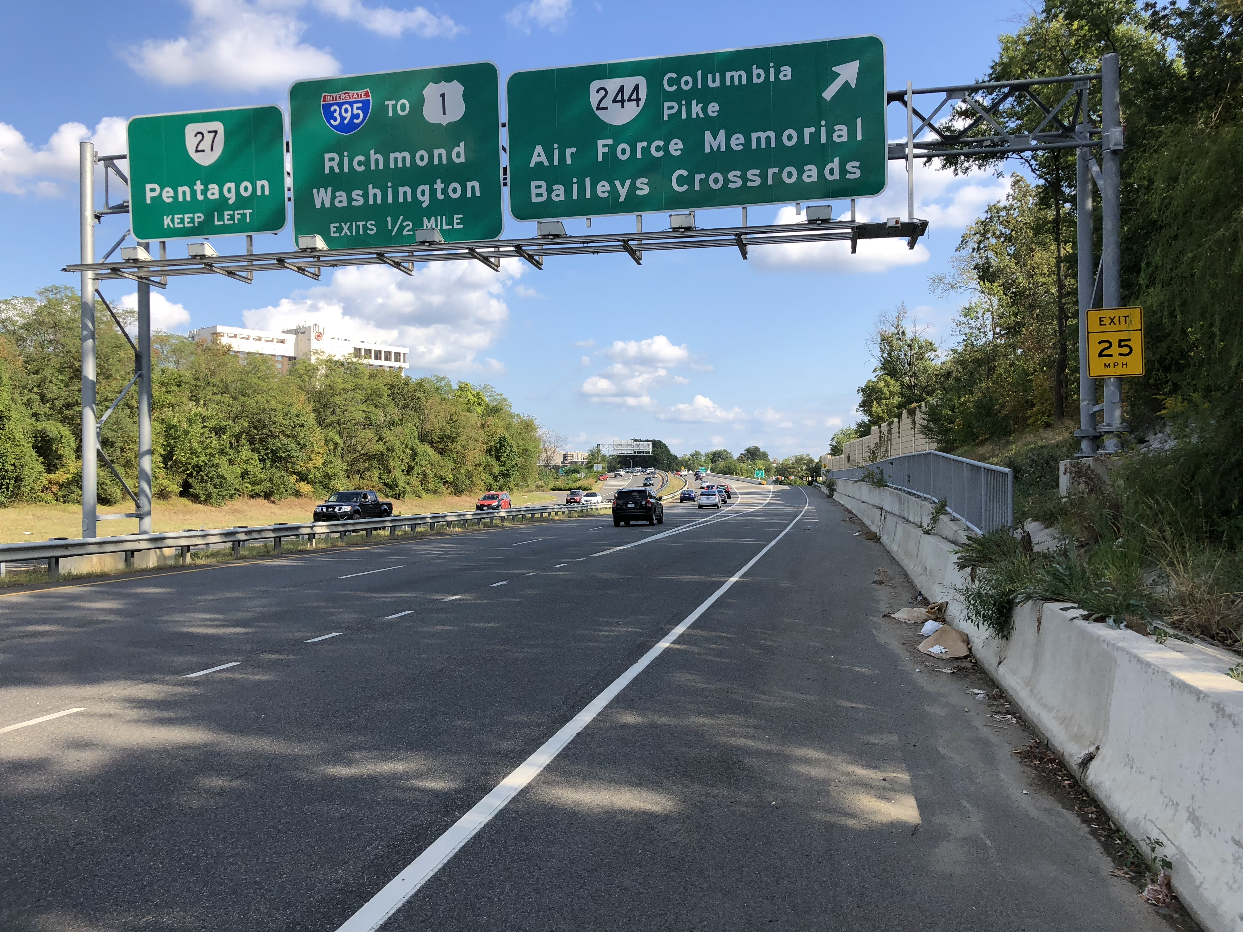 View east along Virginia State Route 27 (Washington Boulevard) at the exit for Virginia State Route 244 (Columbia Pike, Air Force Memorial, Baileys Crossroads) in Arlington County, Virginia